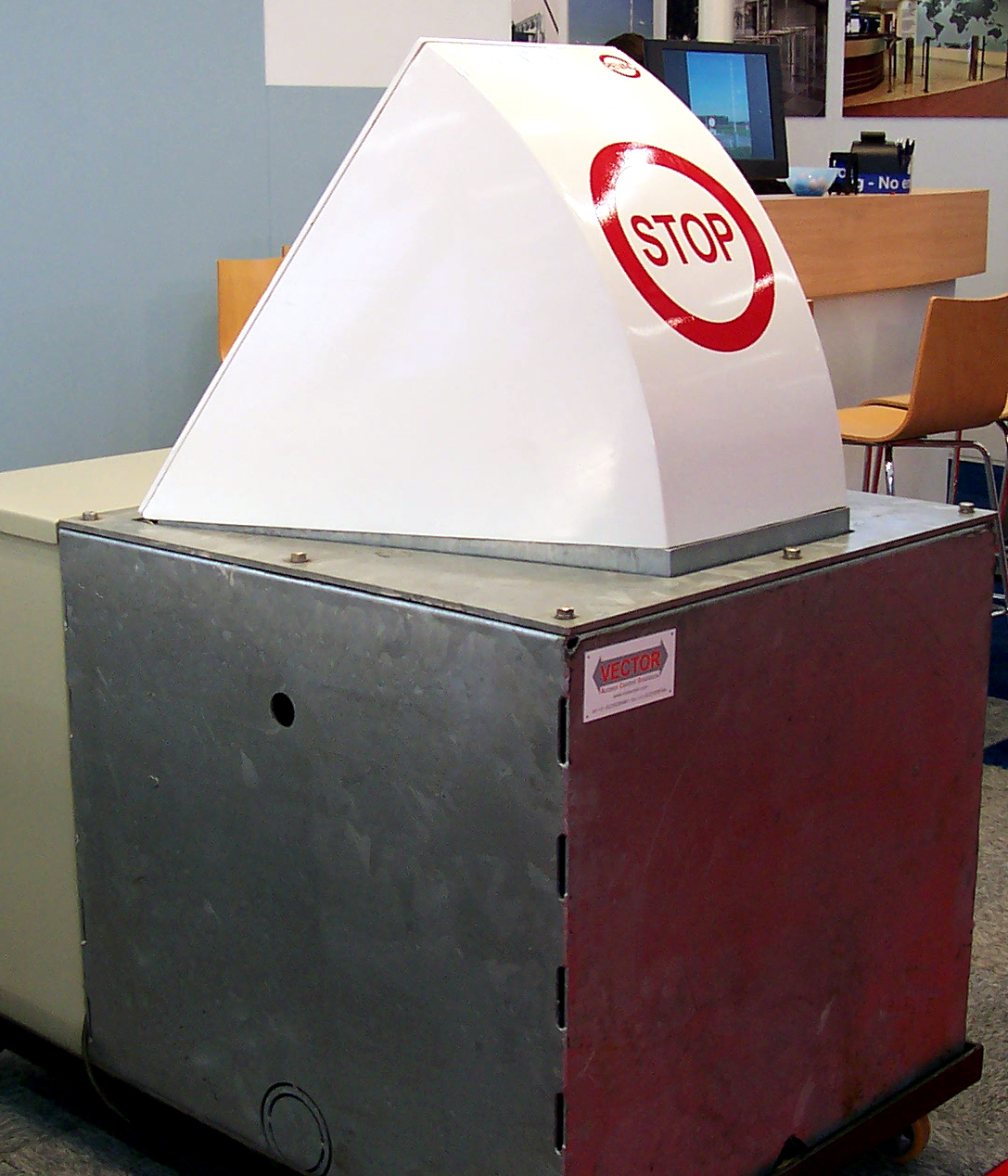 Trapezoid bollard.